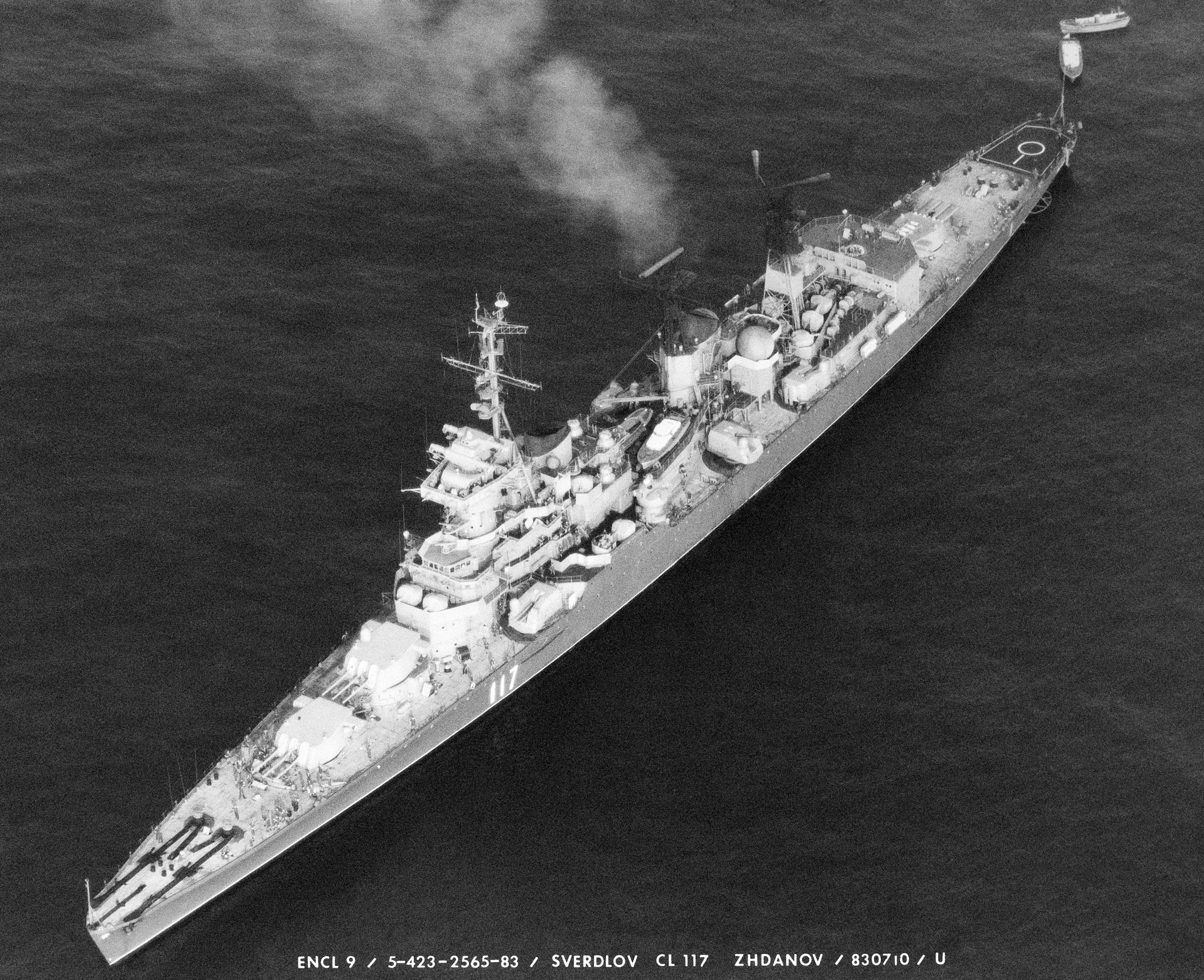 An elevated port bow view of the Soviet Navy command cruiser projekt 68-U (Sverdlov class command cruiser) Zhdanov.